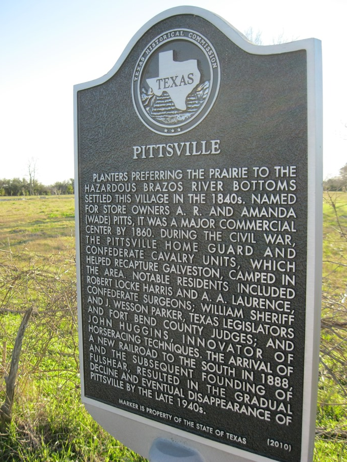 Photo shows Texas State Historical Marker at the site of Pittsville. The marker is on the west side of FM 359 north of Fulshear.